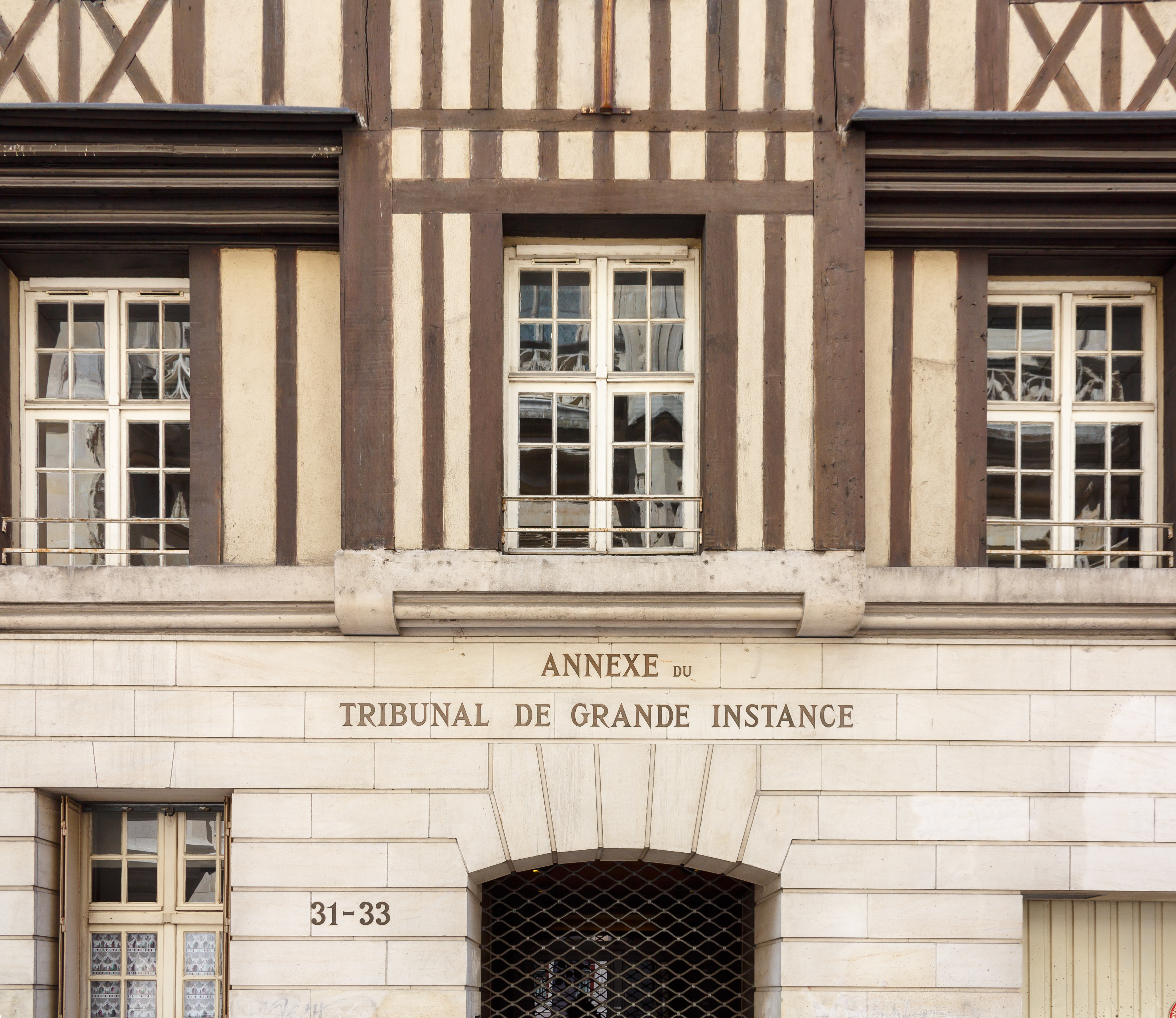 Rouen, France: Annexe du Tribunal de grande instance